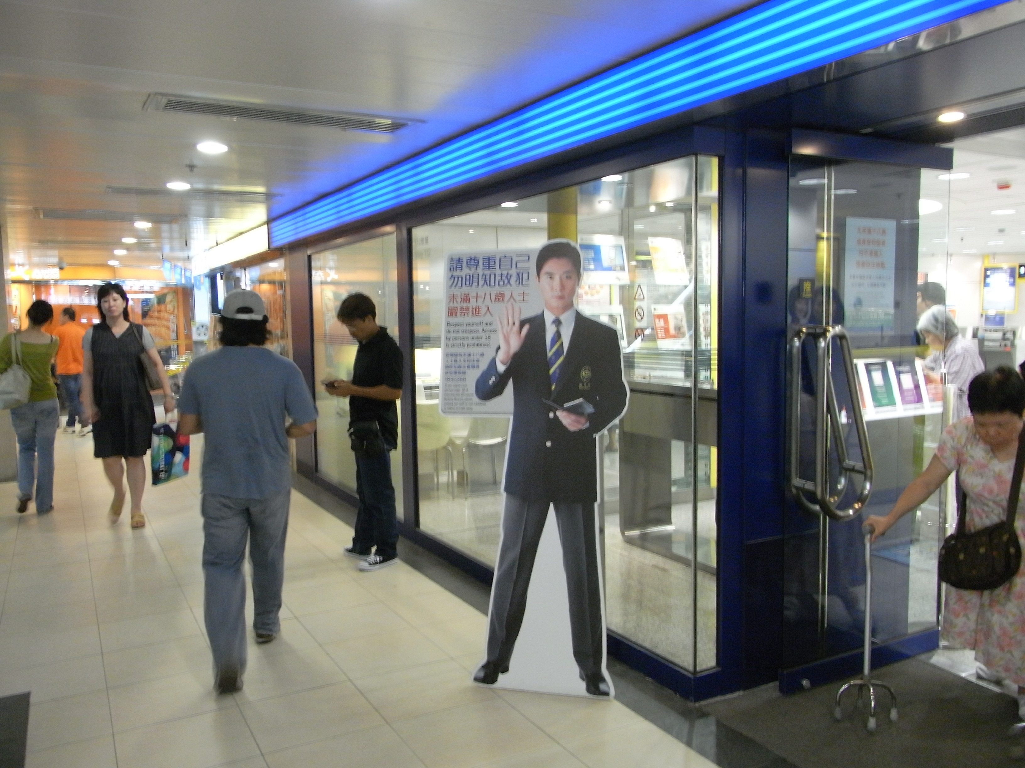 九龍灣 麗晶花園 麗晶商場 馬會投注站 內景